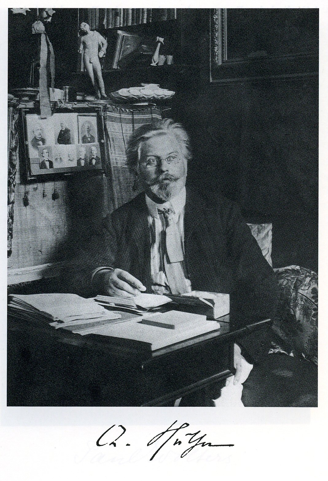 German Archaeologist Christian Hülsen (1858-1935)